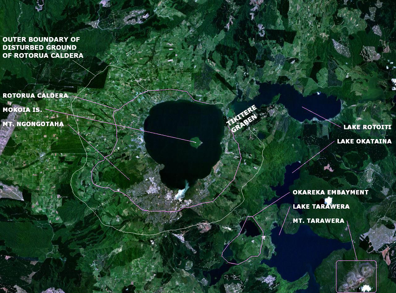 NASA World Wind false-colour landsat-7 composite satellite photo of Lake Rotorua in New Zealand. Category:Taupo Volcanic Zone